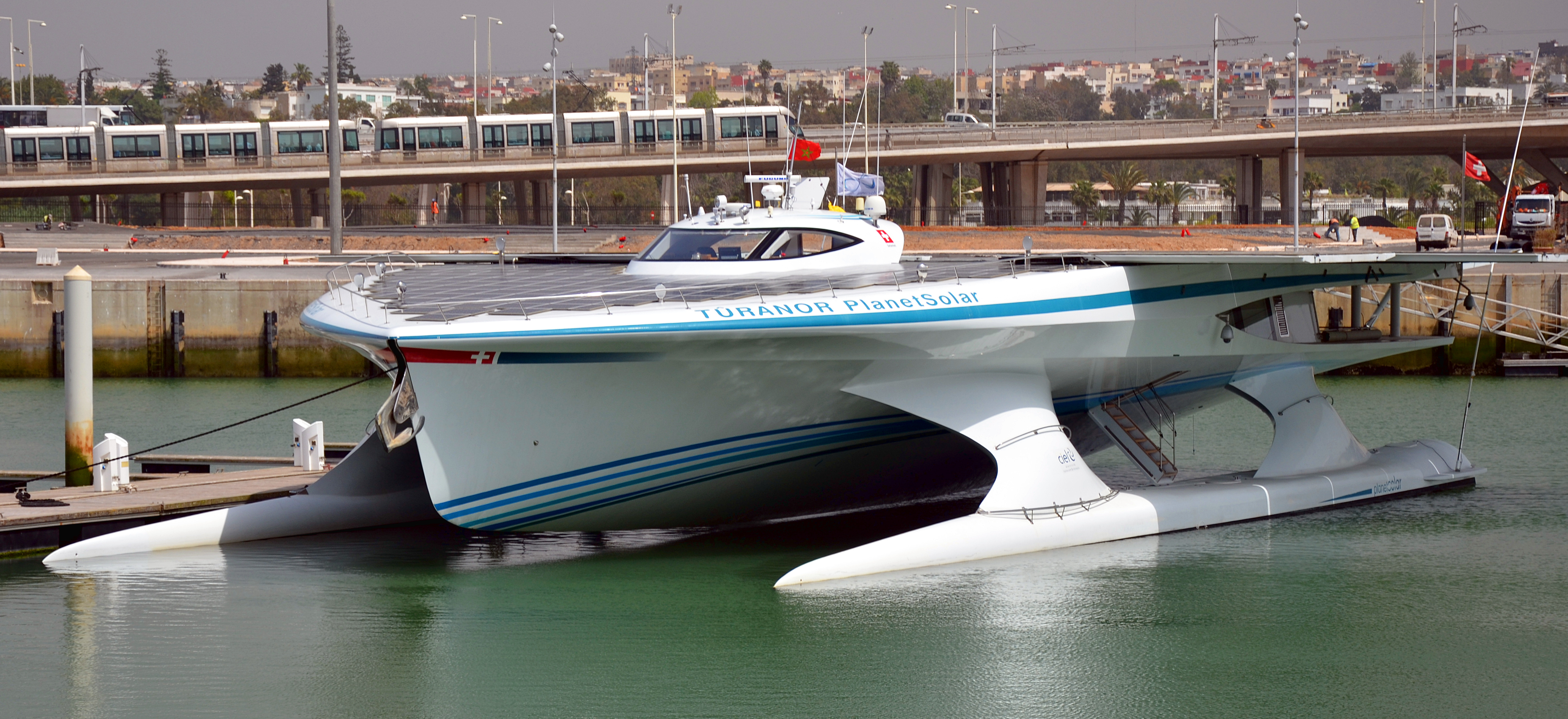 PlanetSolar in Rabat, Morocco.